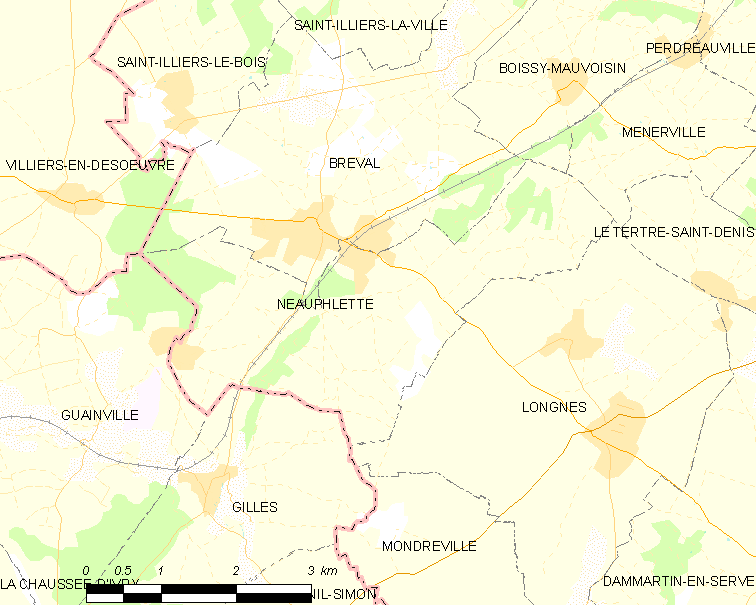 Map of French municipality Neauphlette